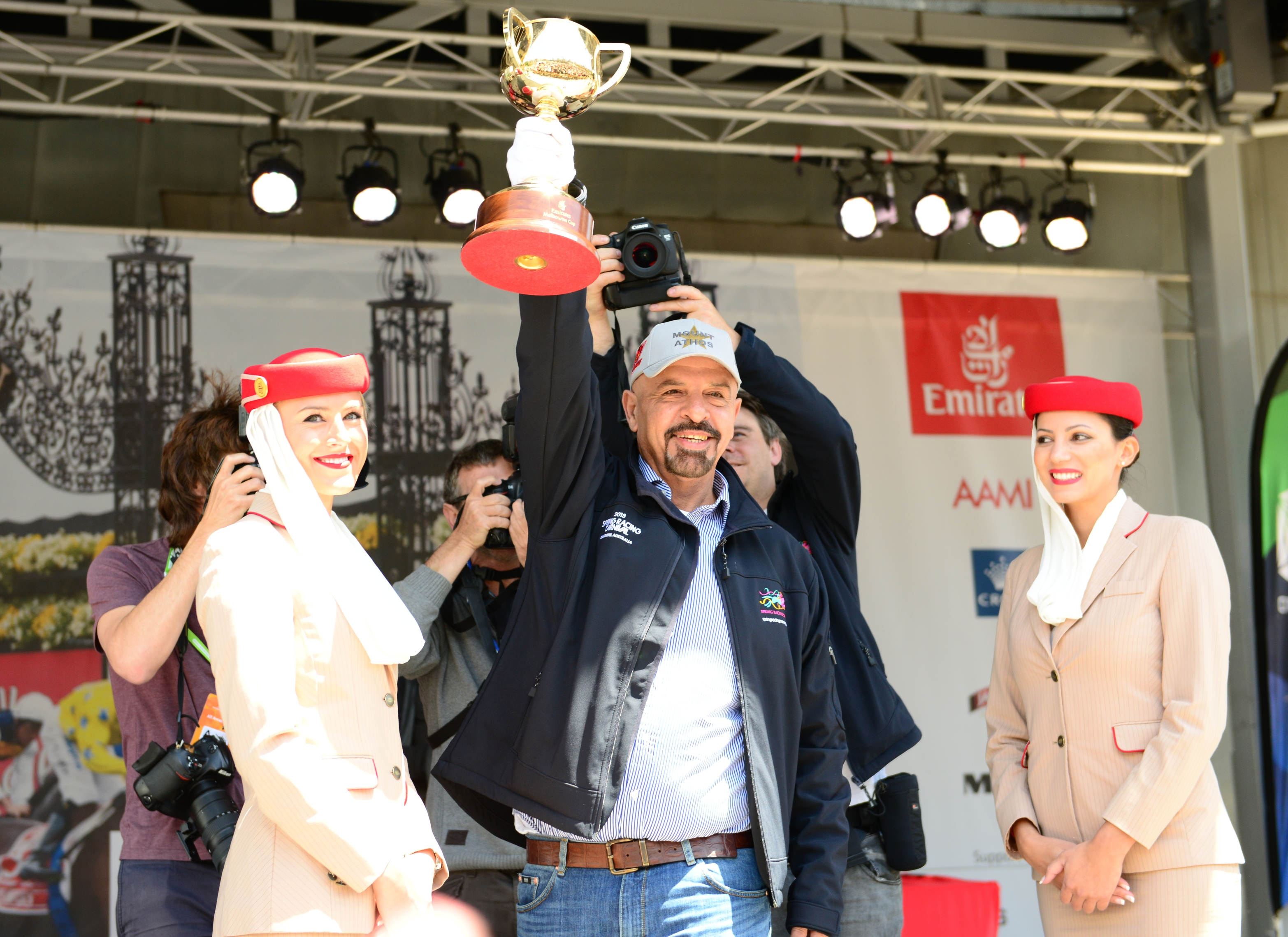 Marwan Koukash, owner of the well fancied Mt Athos has strong confidence his horse will win the 2013 Melbourne Cup. Its actually considered bad luck to touch the trophy if you're in the race to win it. An unlucky fifth in last year's Cup, Mount Athos returns to complete some unfinished business for trainer Luca Cumani. Who will take the prize tomorrow? (This picture is overexposed, that sun just came out of nowhere)